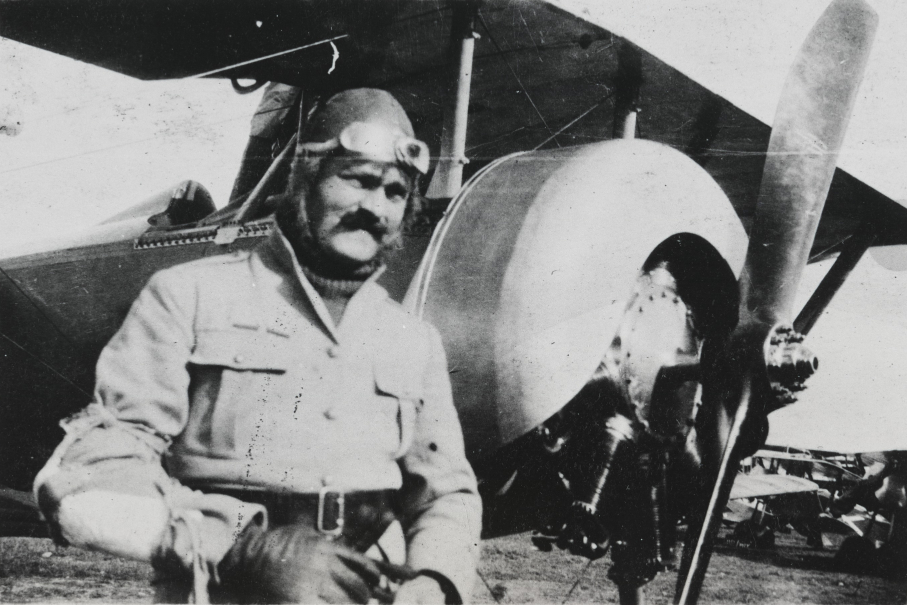 William Thaw, right arm in a cast, member of the Lafayette Escadrille stands in front of a Nieuport XVI. National Air and Space Museum : Inventory Number: NASM-NAM-A-48765-C